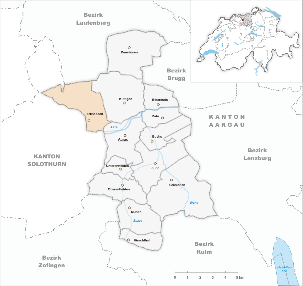 Municipality Erlinsbach